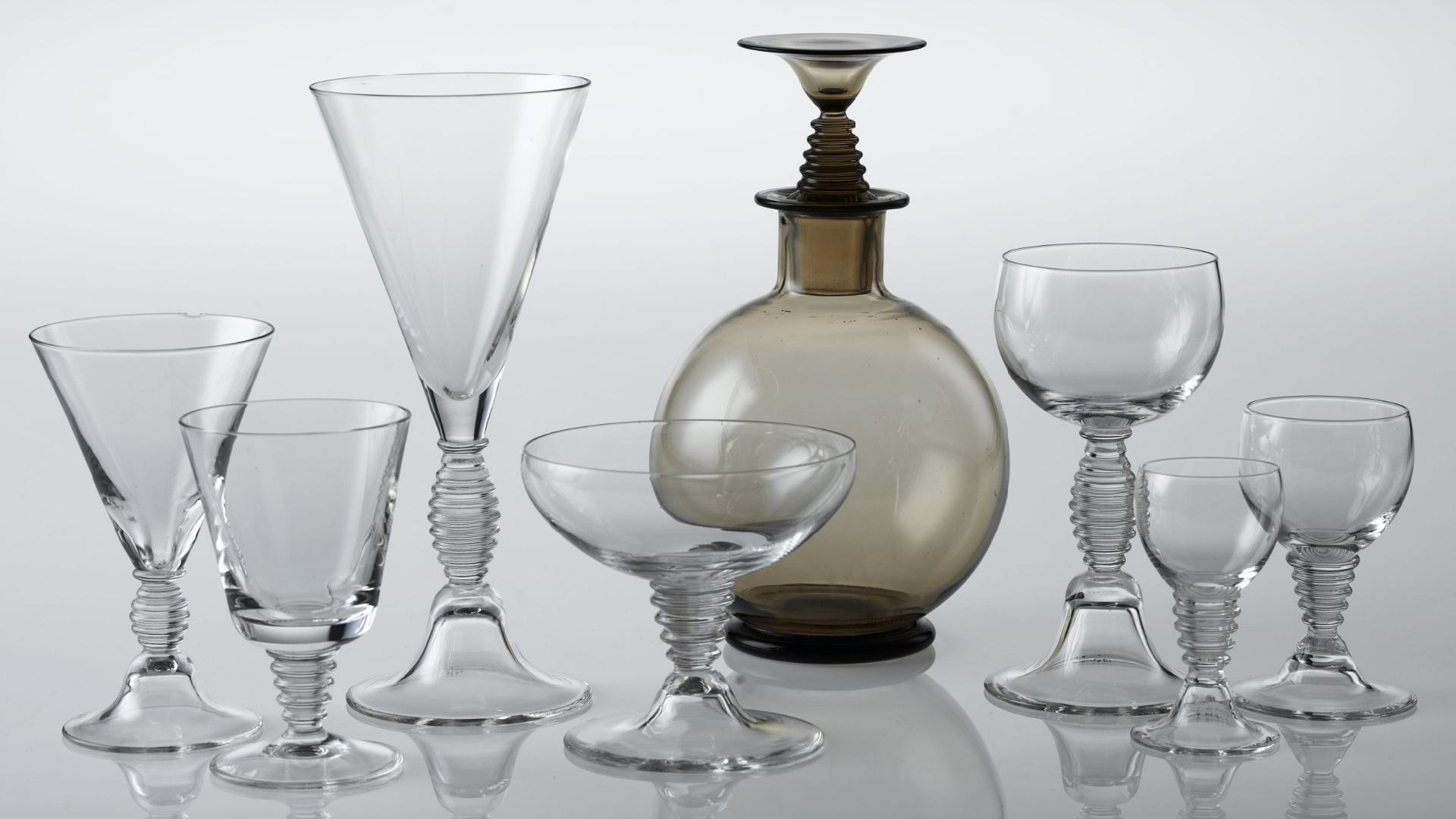 Set of glasses "Traditie", designed by Willem Jacob Rozendaal and produced in 1932-33 by N.V. Kristalunie in Maastricht, Netherlands. Collection: Nationaal Glasmuseum, Leerdam, ref. nr. 1987-18-a.